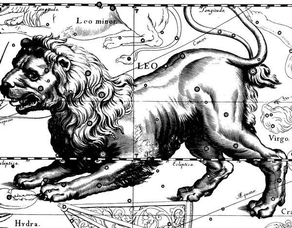 The Leo constellation from Uranographia by Johannes Hevelius. The view is mirrored following the tradition of celestial globes, showing the celestial sphere in a view from "ouside"